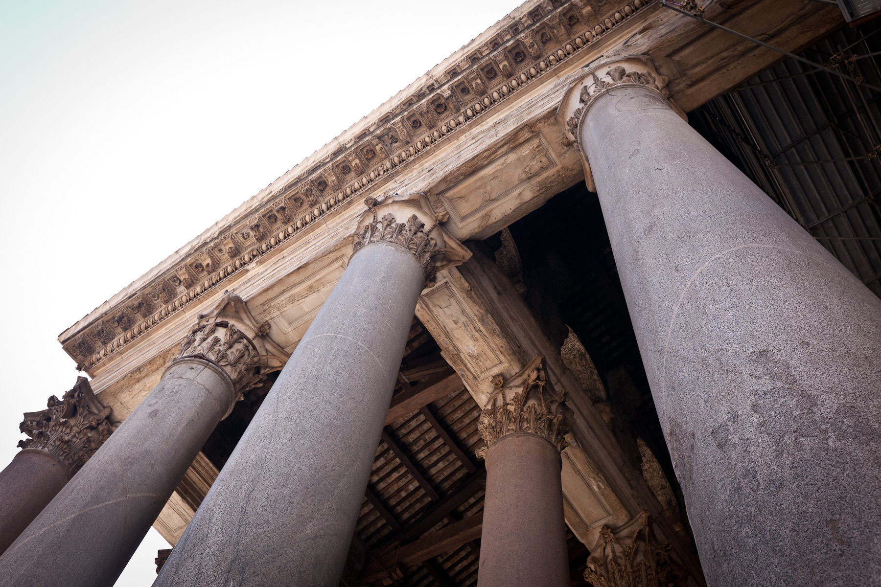 Roma - Pantheon